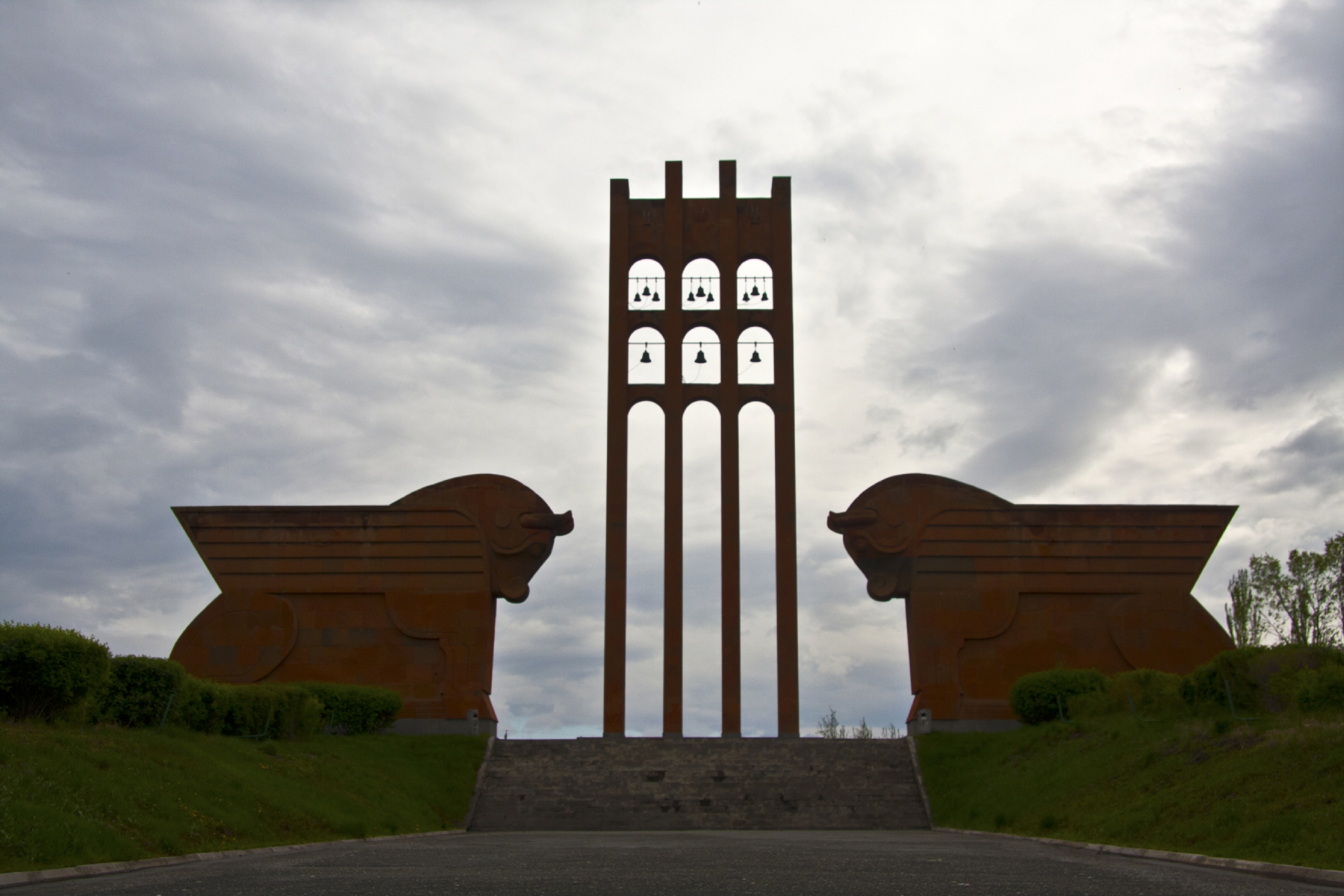 ՀՈՒՇԱՀԱՄԱԼԻՐ՝ ՍԱՐԴԱՐԱՊԱՏԻ ՃԱԿԱՏԱՄԱՐՏԻ ՀԵՐՈՍՆԵՐԻ 59/3